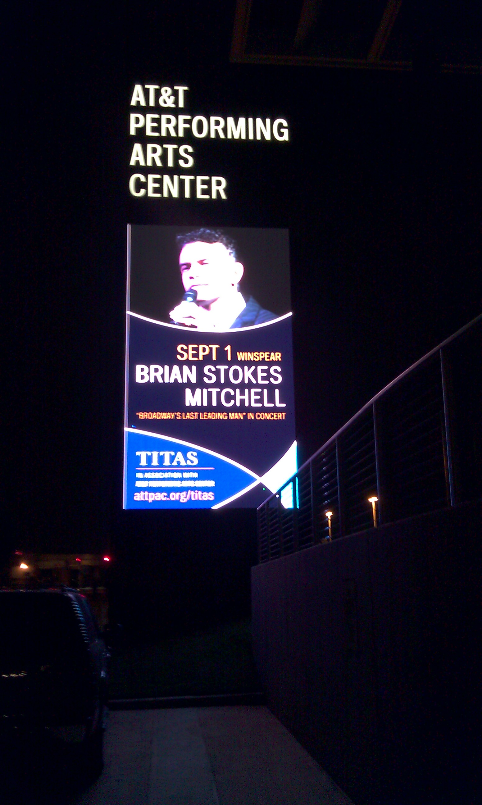 Marquee outside the Winspear Opera House in Dallas, Texas, promoting the September 1, 2011 appearance of Brian Stokes Mitchell.